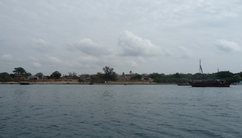 Shimoni, Kwale, Kenya